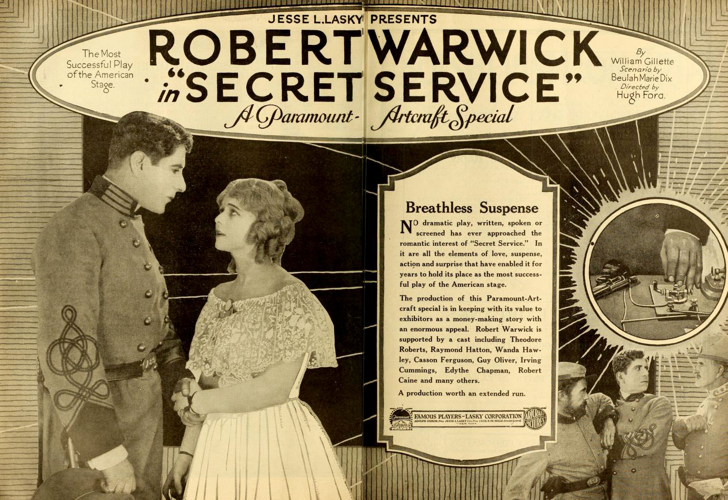 Advertisement for the American drama film Secret Service (1919) with Robert Warwick. The Moving Picture World, June 1919.